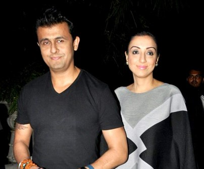 Sonu Nigam & Madhurima Nigam at Rakesh Roshan's birthday bash.